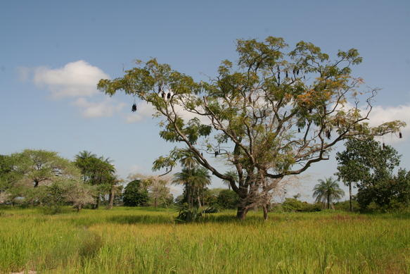 Landscape of Casamance Region, southern Senegal